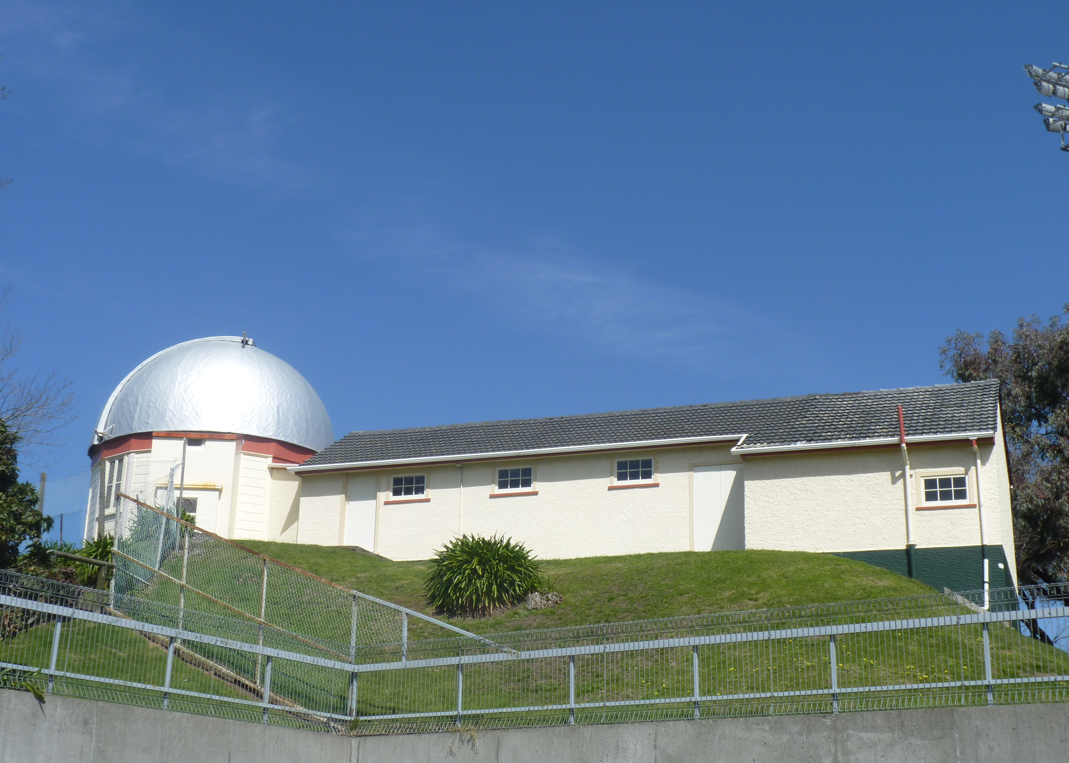 Ward Observatory (Including Telescope & Mounting). Whanganui, New Zealand